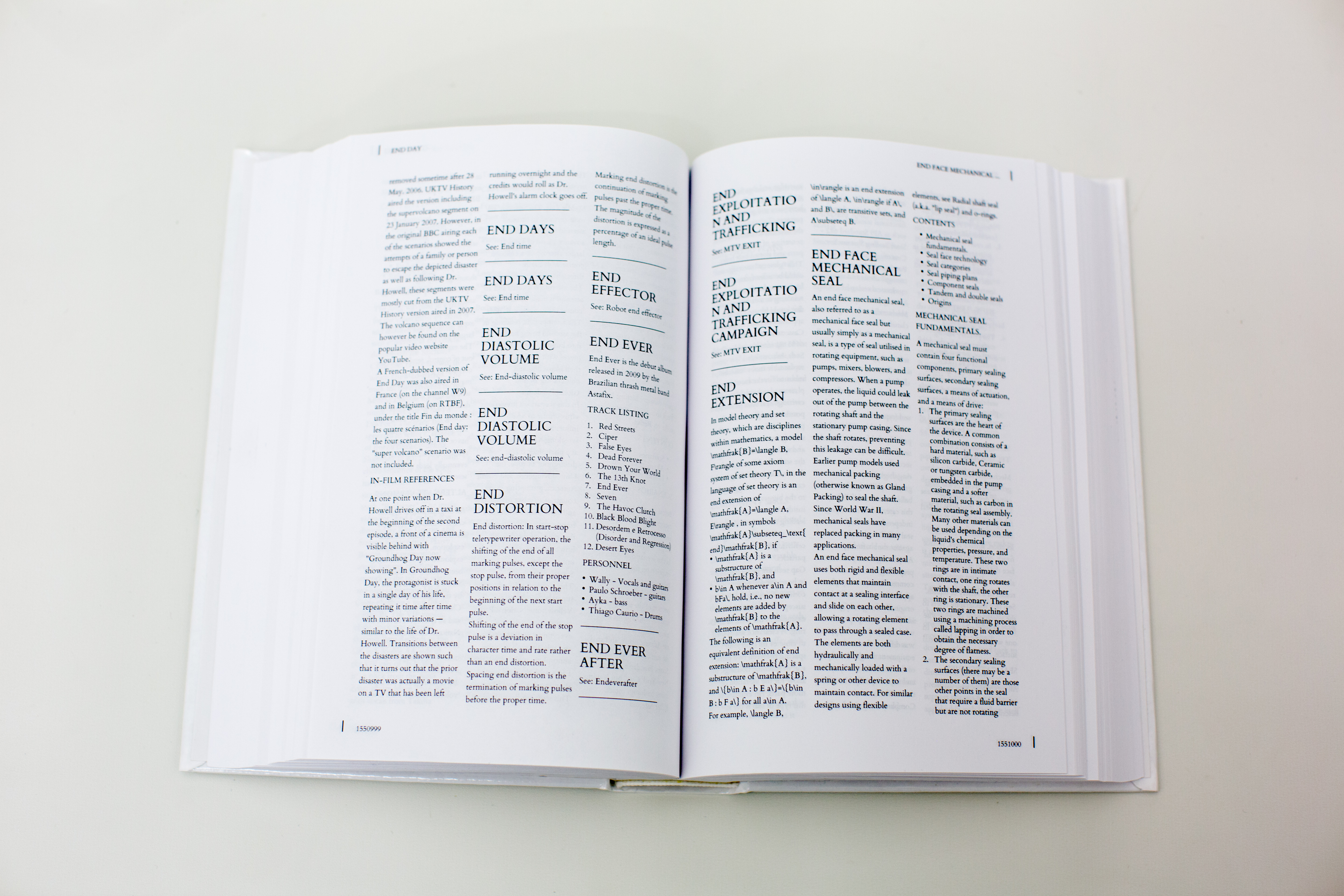 Print Wikipedia by Michael Mandiberg, NYC June 18, 2015 Derivative work CC By-SA 3.0 2015, Wikipedia contributors and Michael Mandiberg User:Theredproject